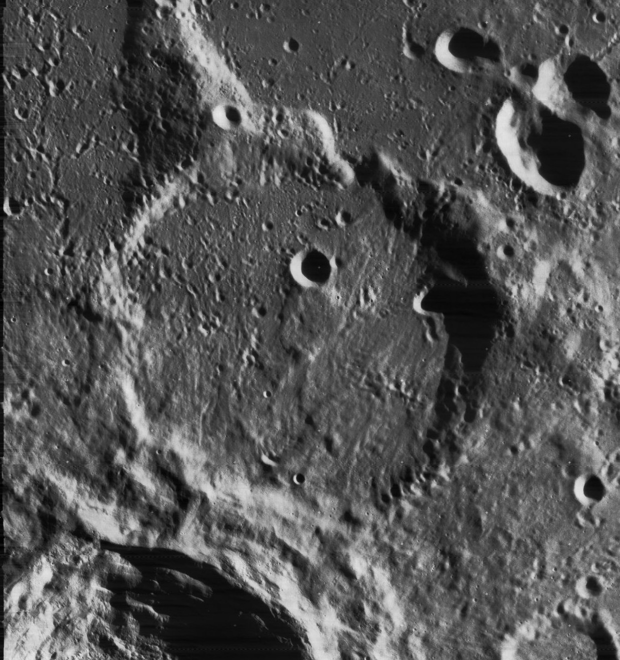 Slightly oblique view of Segner, on the moon.